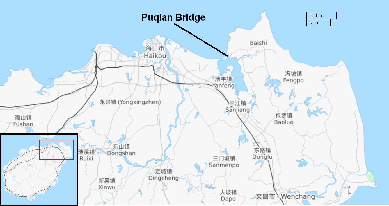 Location map of Puqian Bridge (铺前大桥), Hainan, China This map of Hainan, China was created from OpenStreetMap project data, collected by the community. This map may be incomplete, and may contain errors. Don't rely solely on it for navigation.